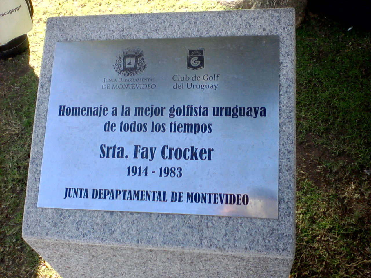 Tribute plaque to Uruguayan golfer Fay Crocker, placed at the entrance of the Club de Golf del Uruguay at the Parque de las Instrucciones del Año XIII in Montevideo, Uruguay.